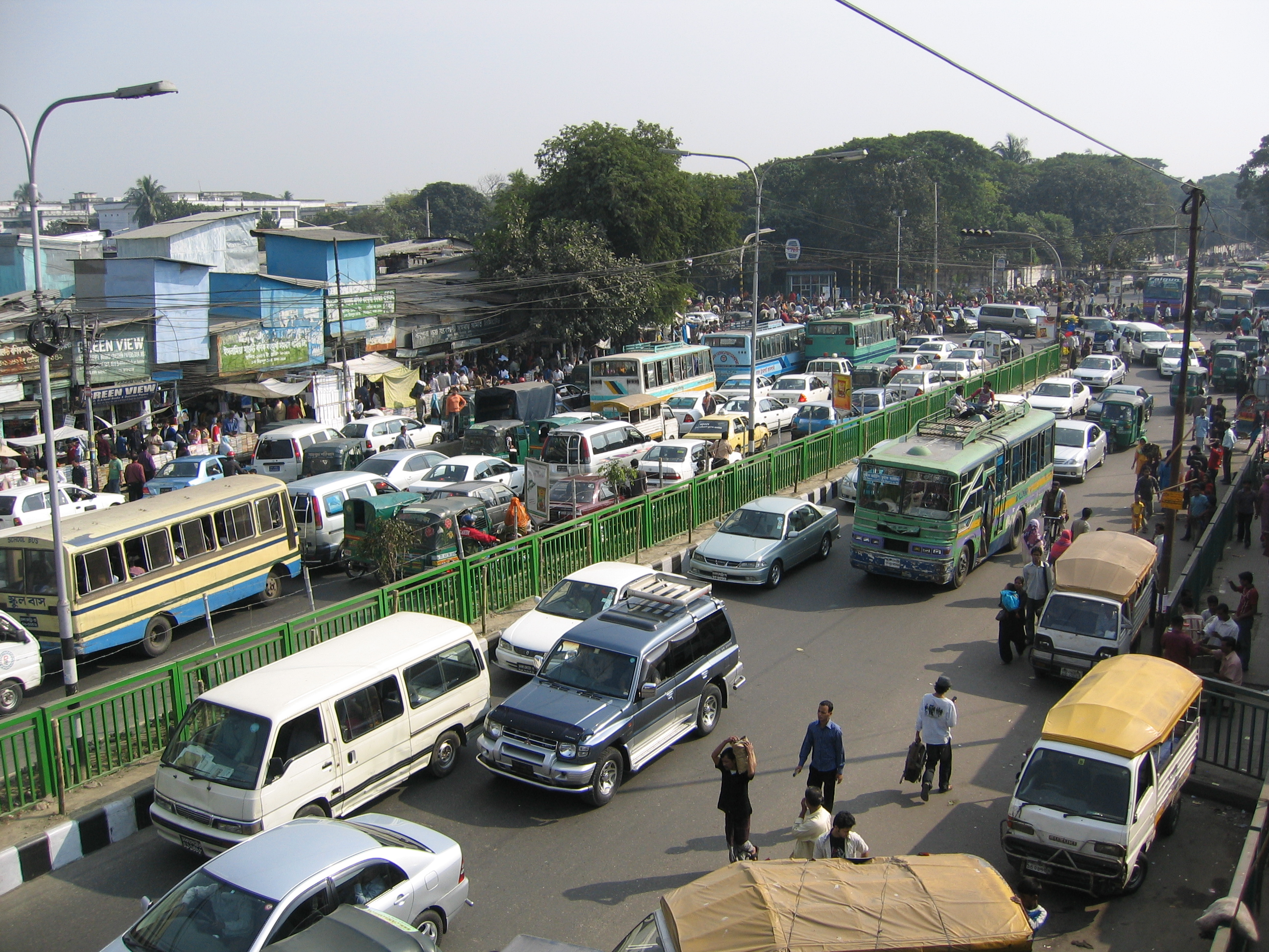 Traffic on Mirpur Road near New Market, Dhaka